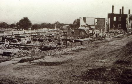 Main street, Chardon, Ohio after the fire of 1868 showing the remains of the 1826 Geauga County Courthouse in the far right.